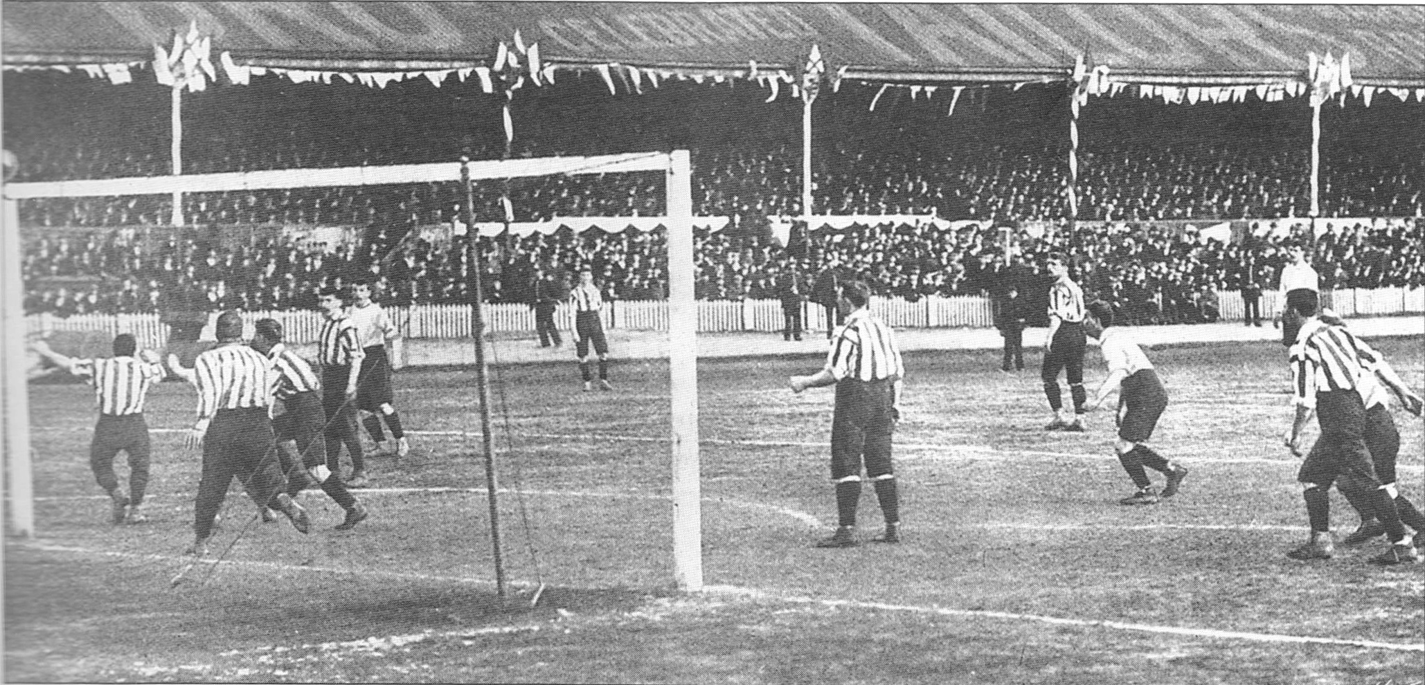 Sandy Brown (hidden) about to score Tottenham's third goal in the replay with a header.